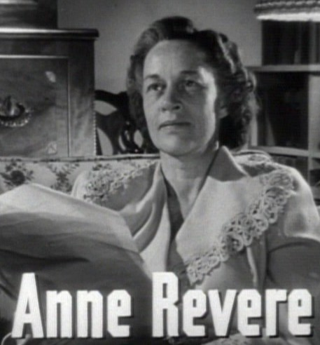 Cropped screenshot of Anne Revere from the trailer for the film Gentleman's Agreement.